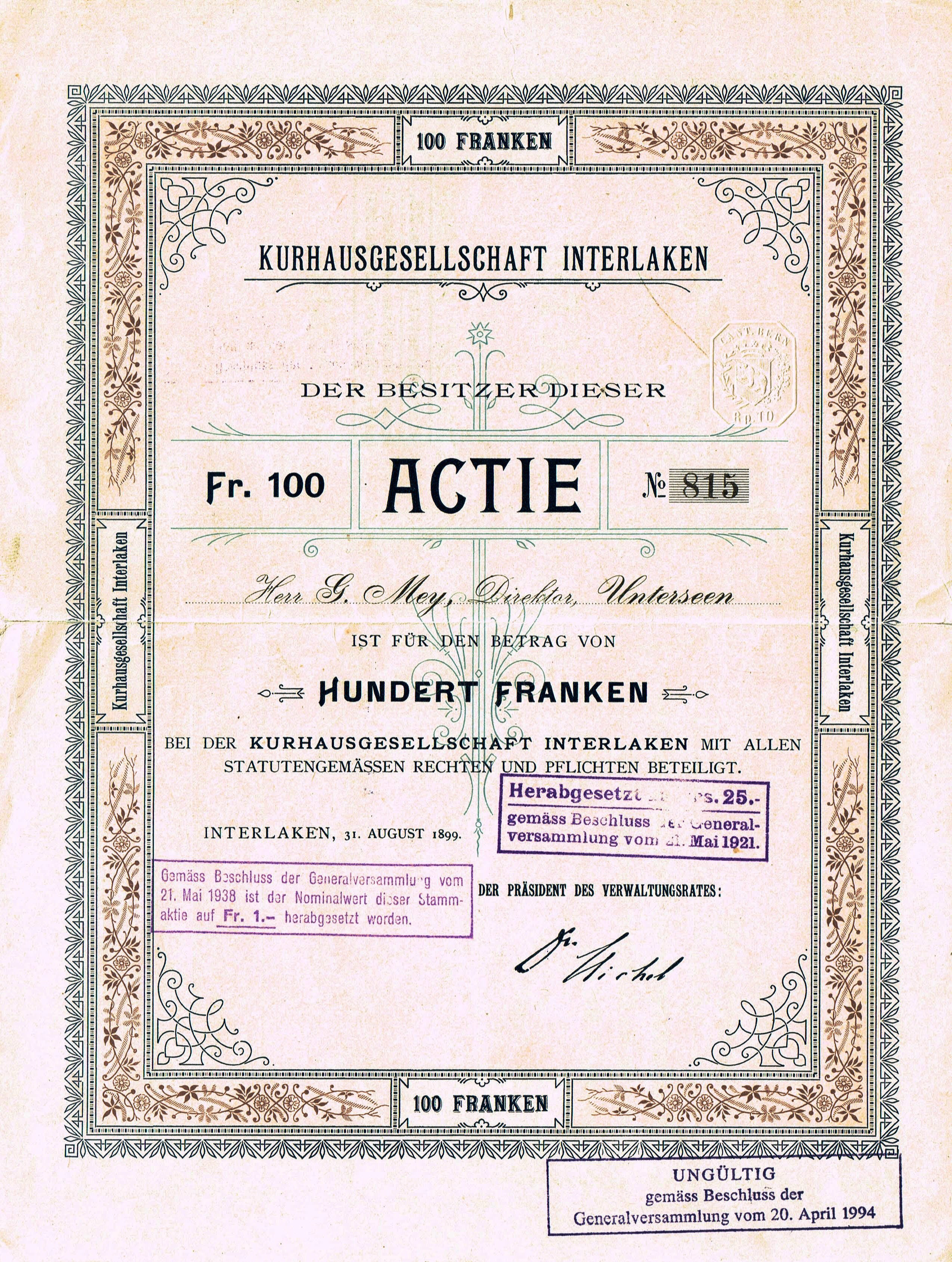 Share of the Kurhausgesellschaft Interlaken, issued 31. August 1899